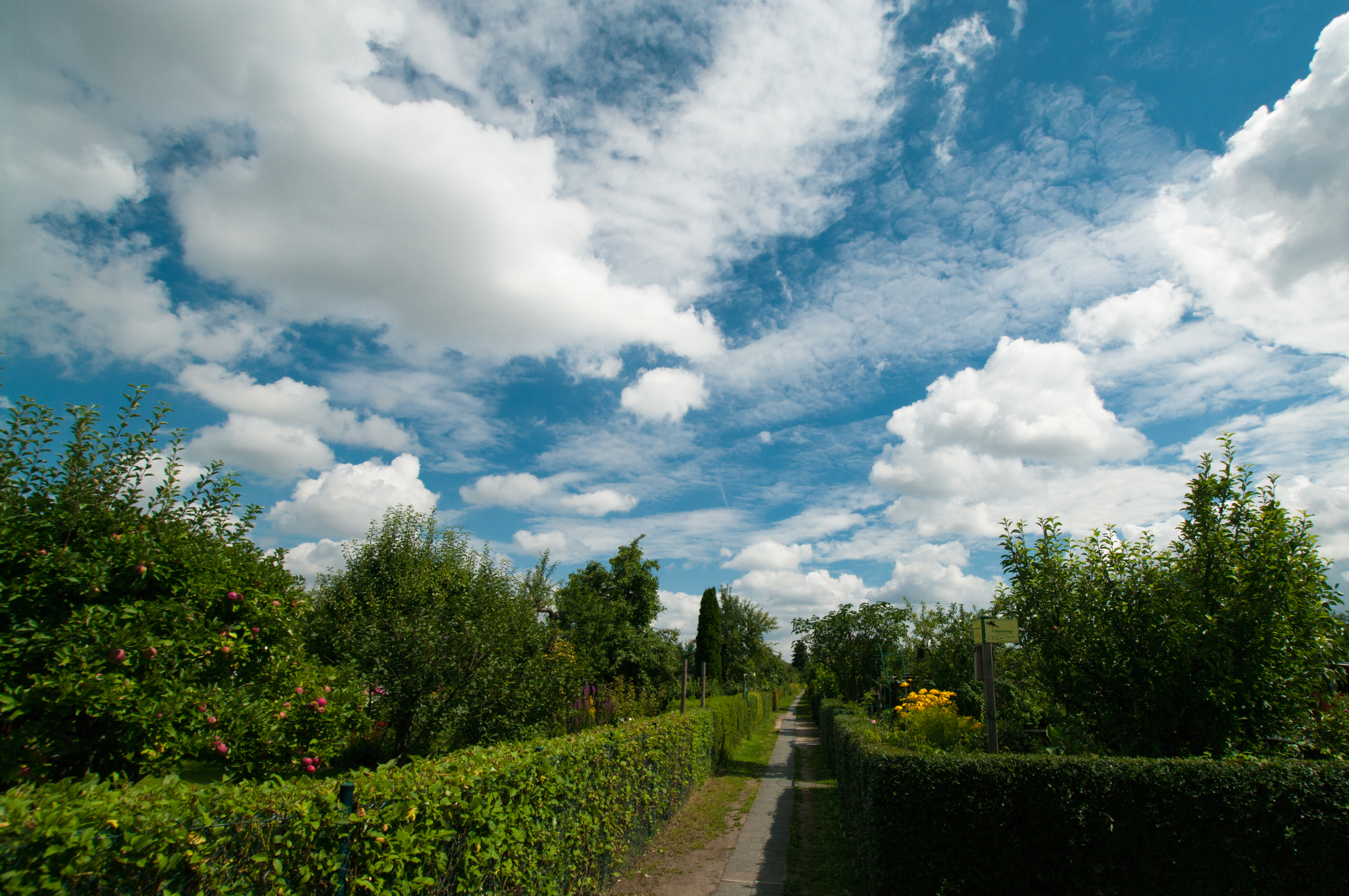 Garden colony Berlin-Südgelände.